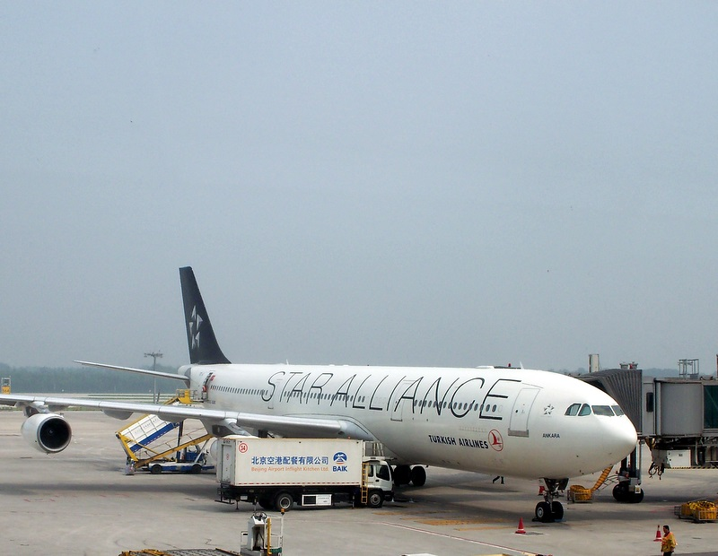 Turkish Airlines A340-300 with Star Alliance livery at Beijing Capital Int'l Airport